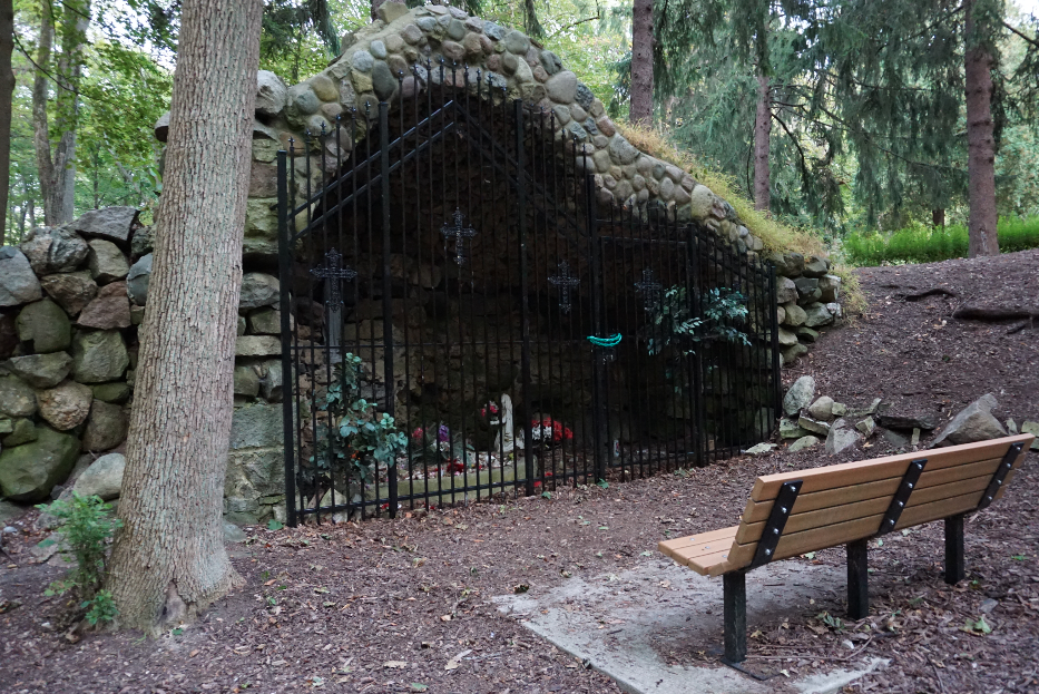 Grotto in Seminary Woods, St. Francis